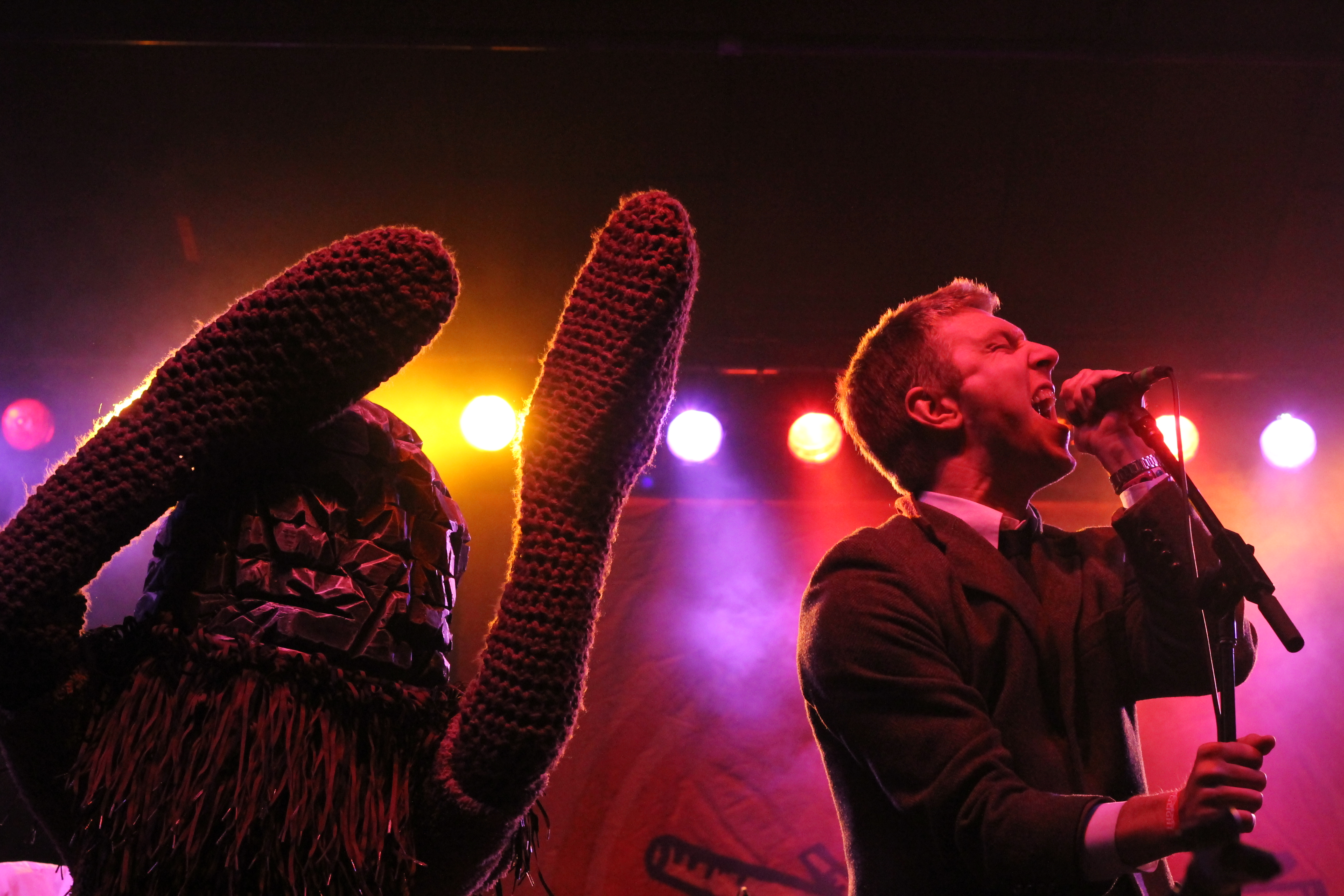 Walkmen perform at the second annual Treefort Music Fest, as does the monster/mascot.